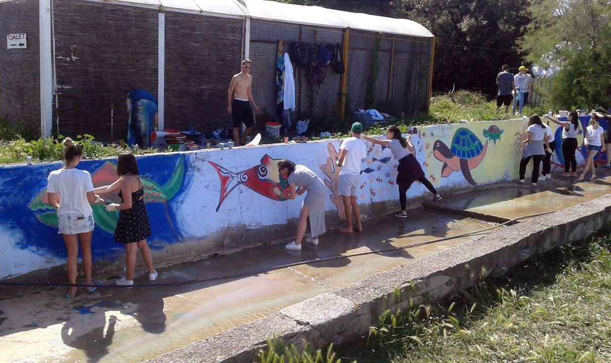 Painting the murals in the action of marking the Earth Day, Budva, Montenegro, 2018